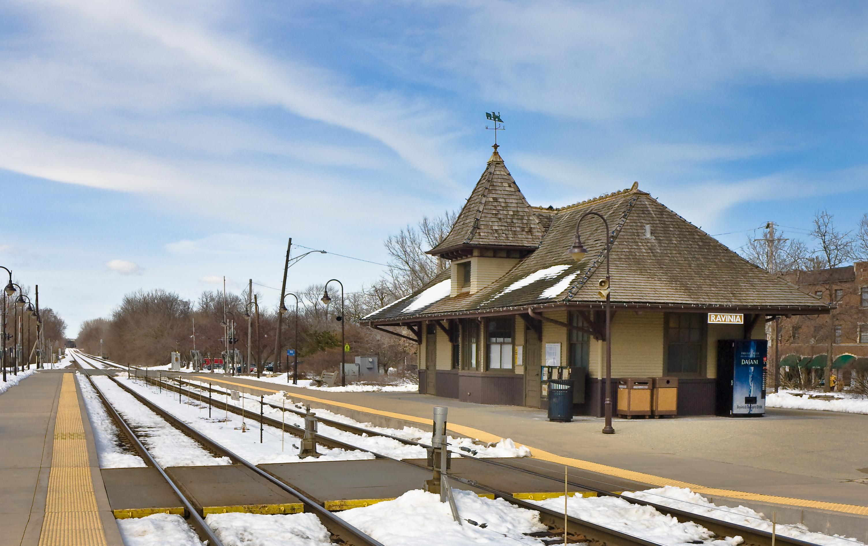 Ravinia station on Metra's Union Pacific/North Line. Highland Park, Illinois.